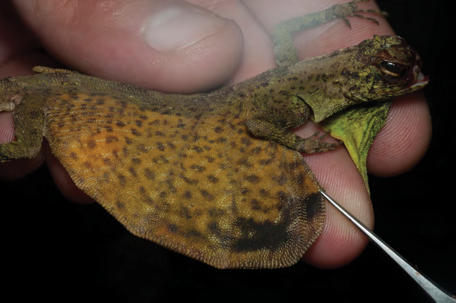 Male Draco spilopterus (KU 330062) from low-elevation, Mt. Cagua (just above Barangay Magrafil). Photo: RMB.